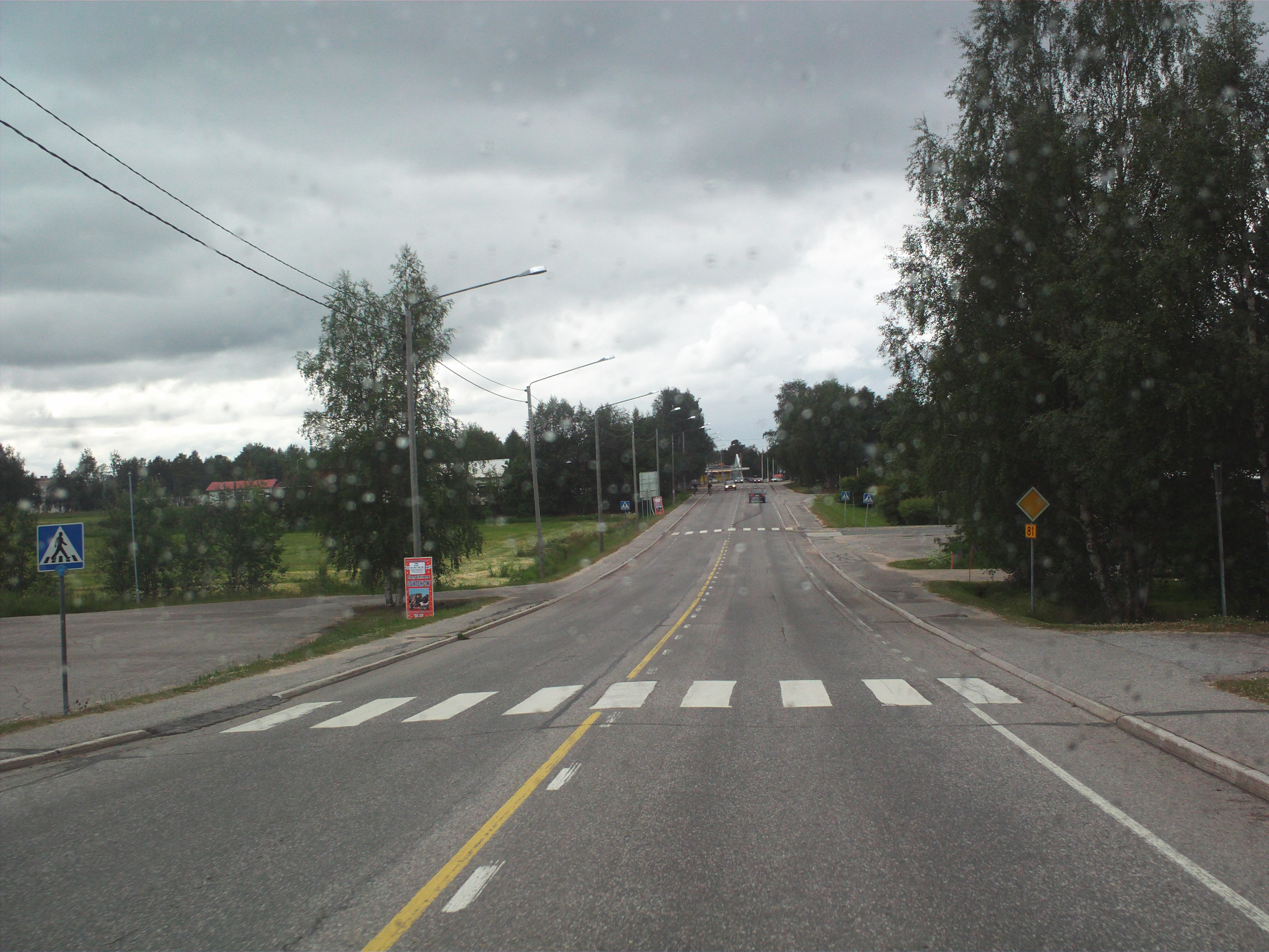 Highway 81 in Posio city center in Finnish Lapland, Posio